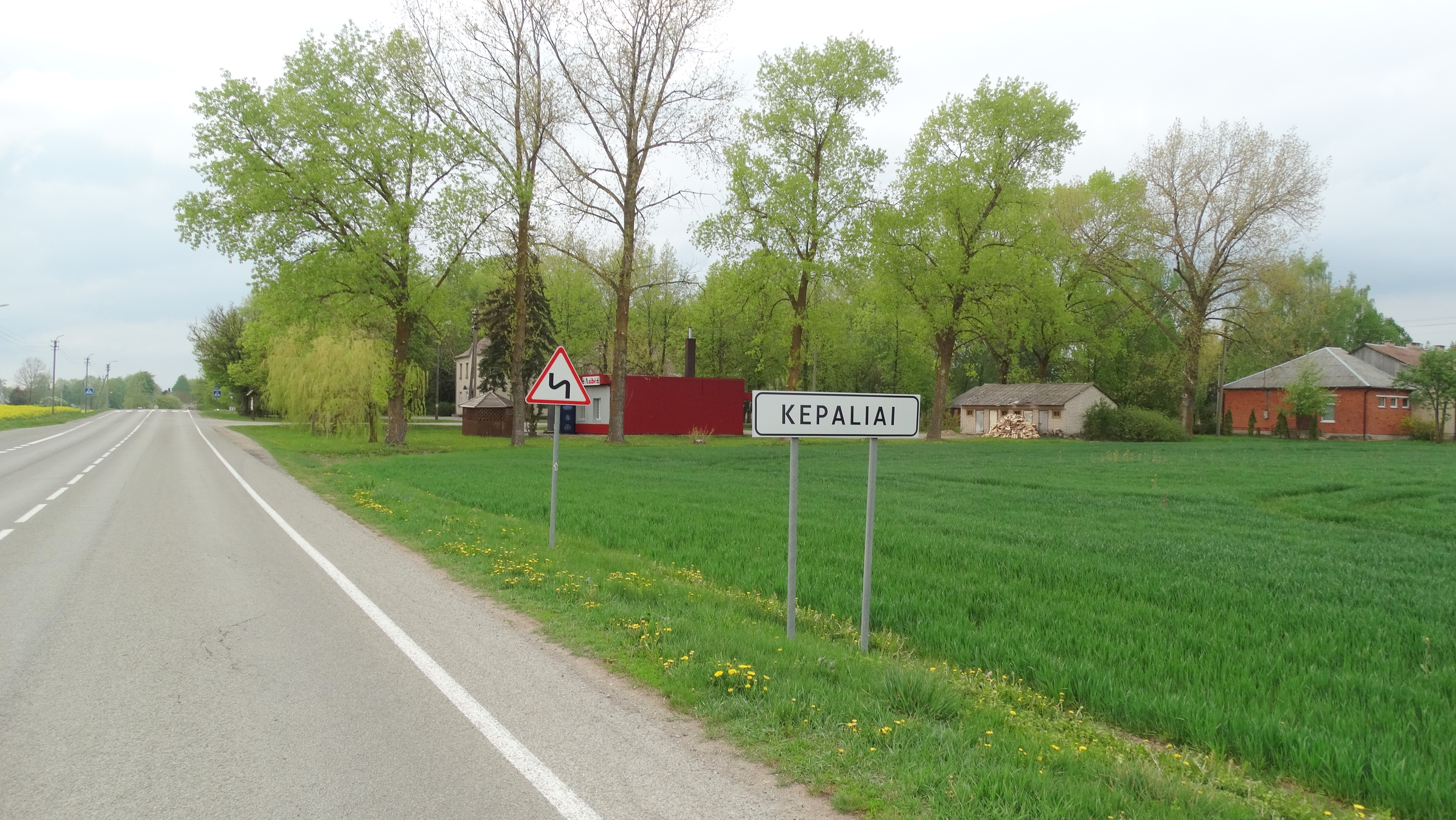 Kepaliai, Joniškis district, Lithuania